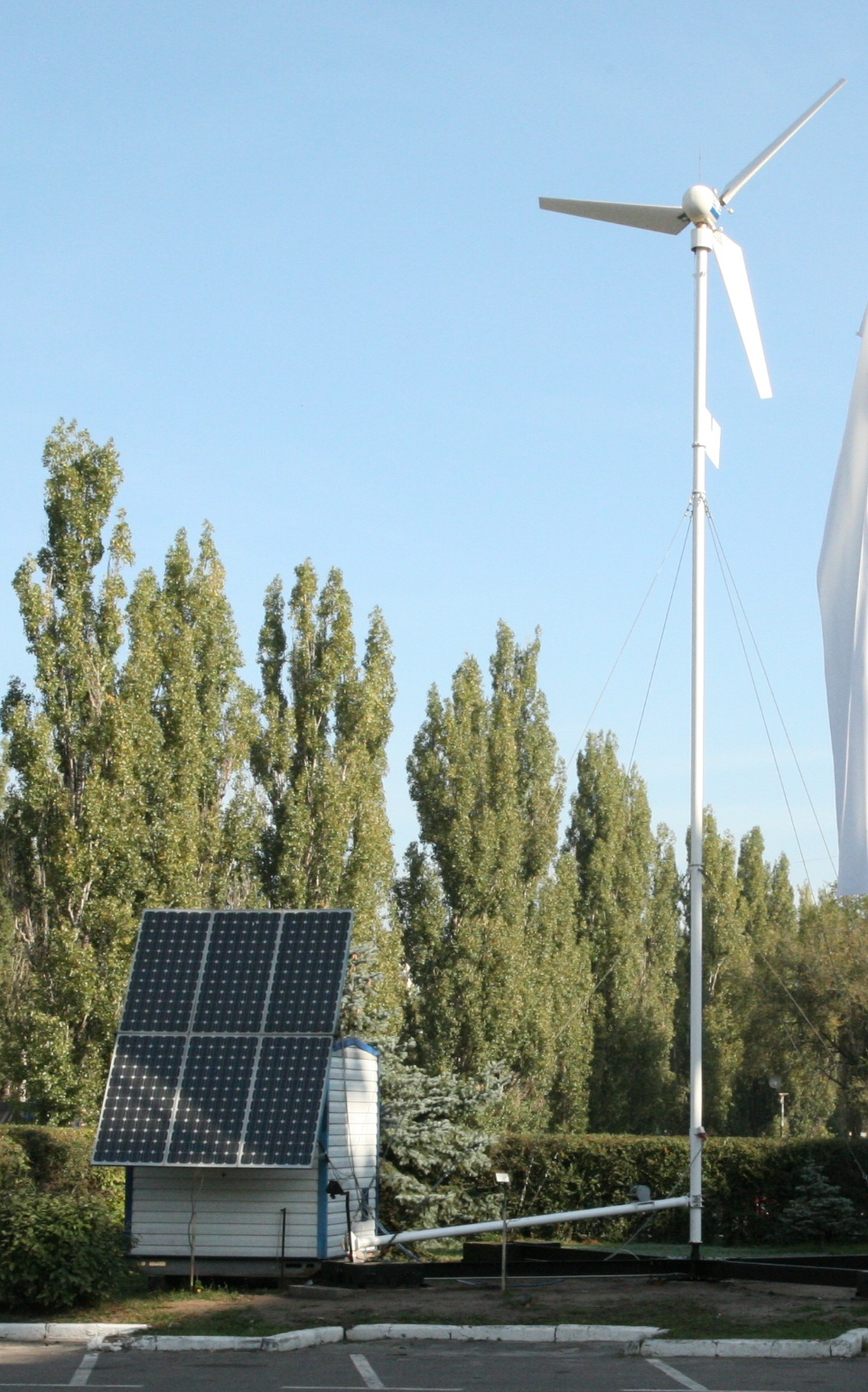 Stanciya energo